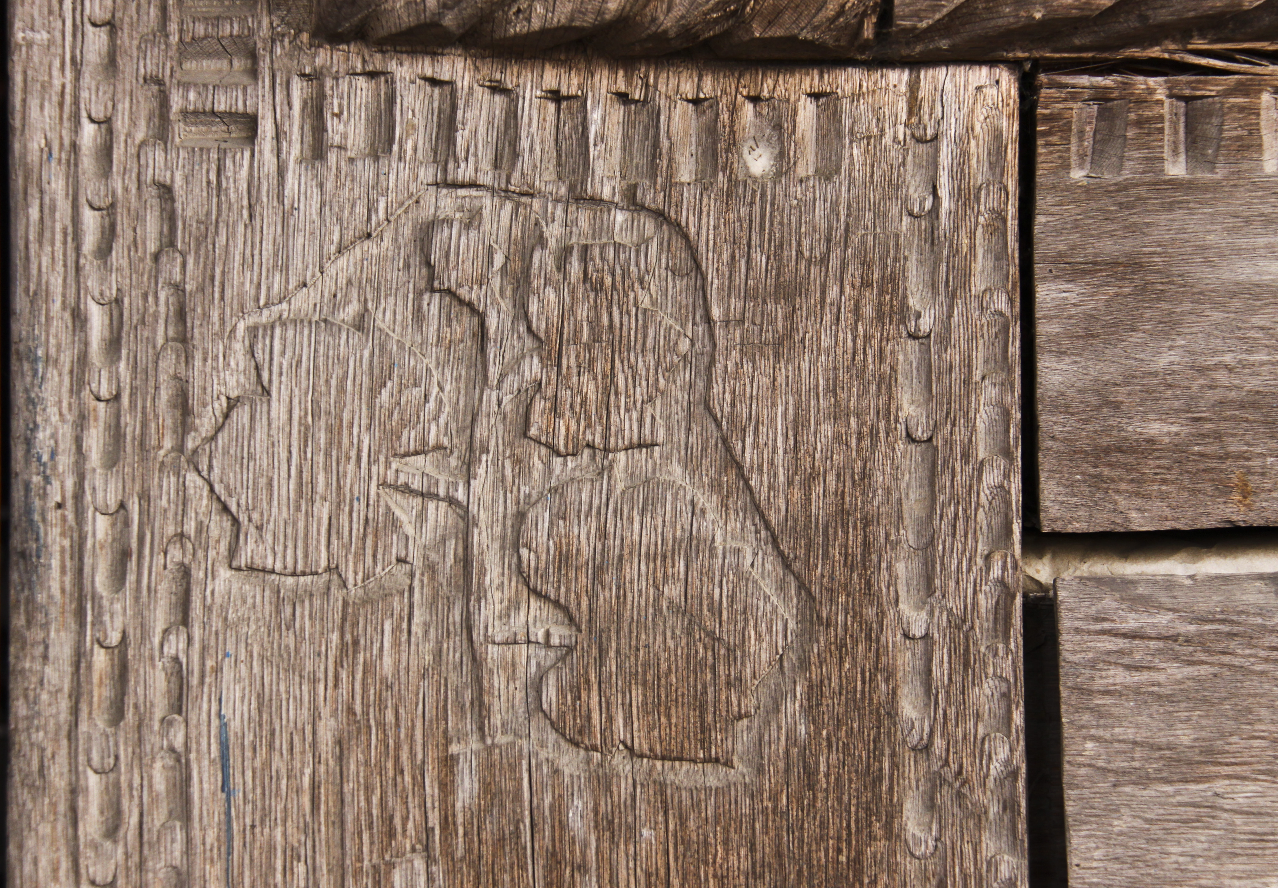 Wooden church in Morăreşti - Piscu Calului, Argeş county, Romania.